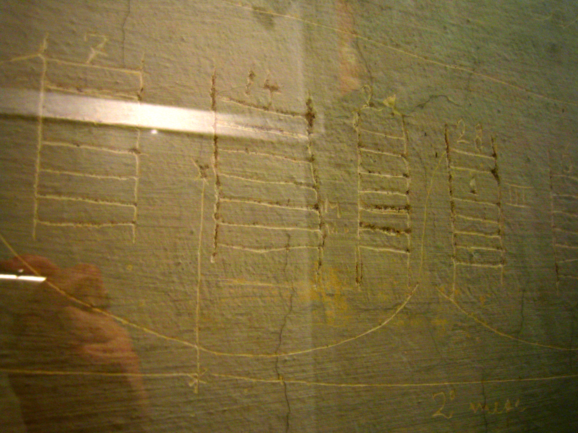 From the small cell on the first floor.